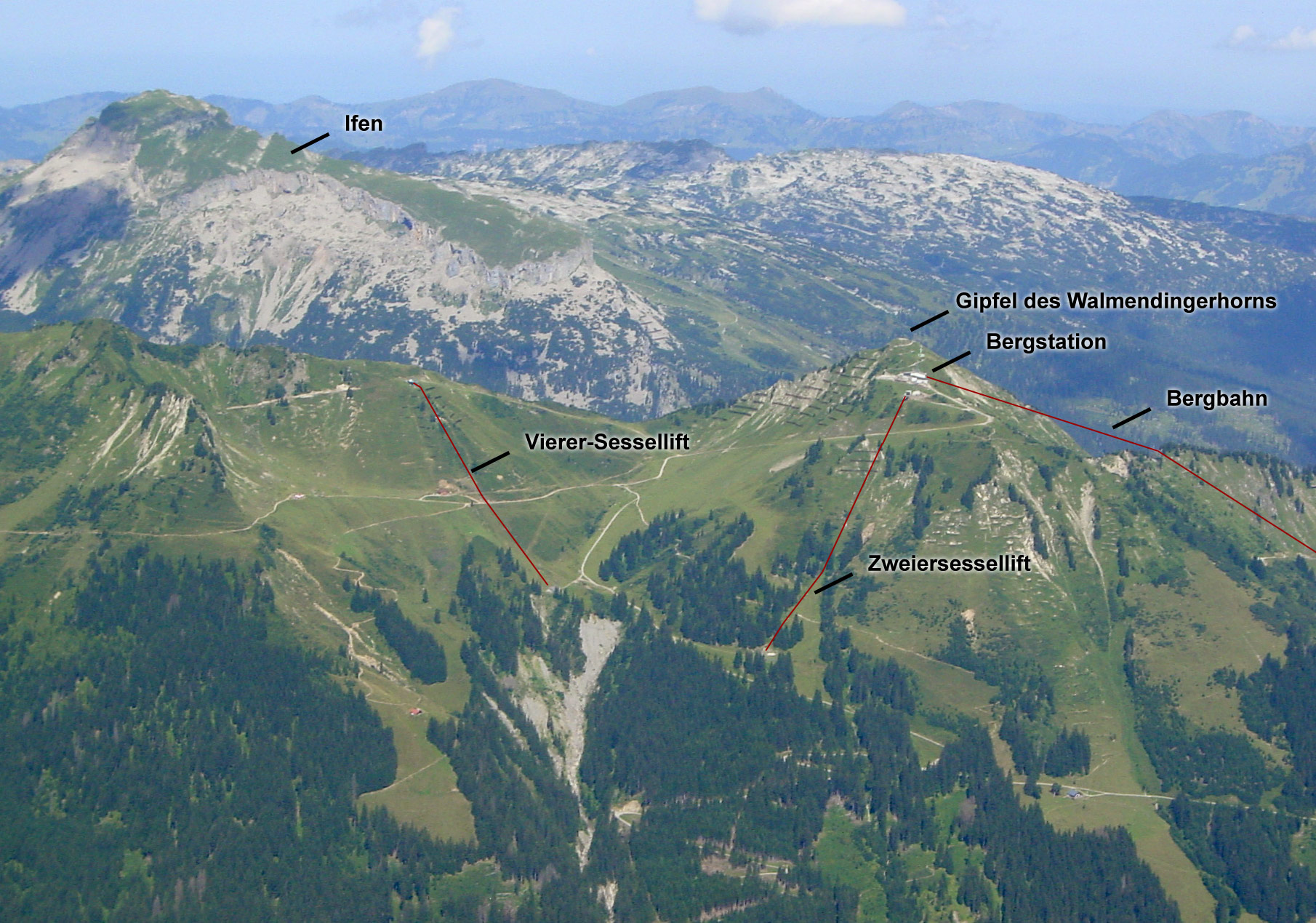 Illustration of the ski region of the Walmendingerhornbahn.